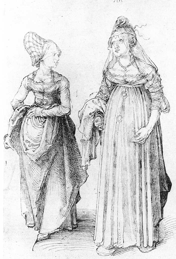 The Venetian woman is presumably wearing chopines, which is why she looks taller.